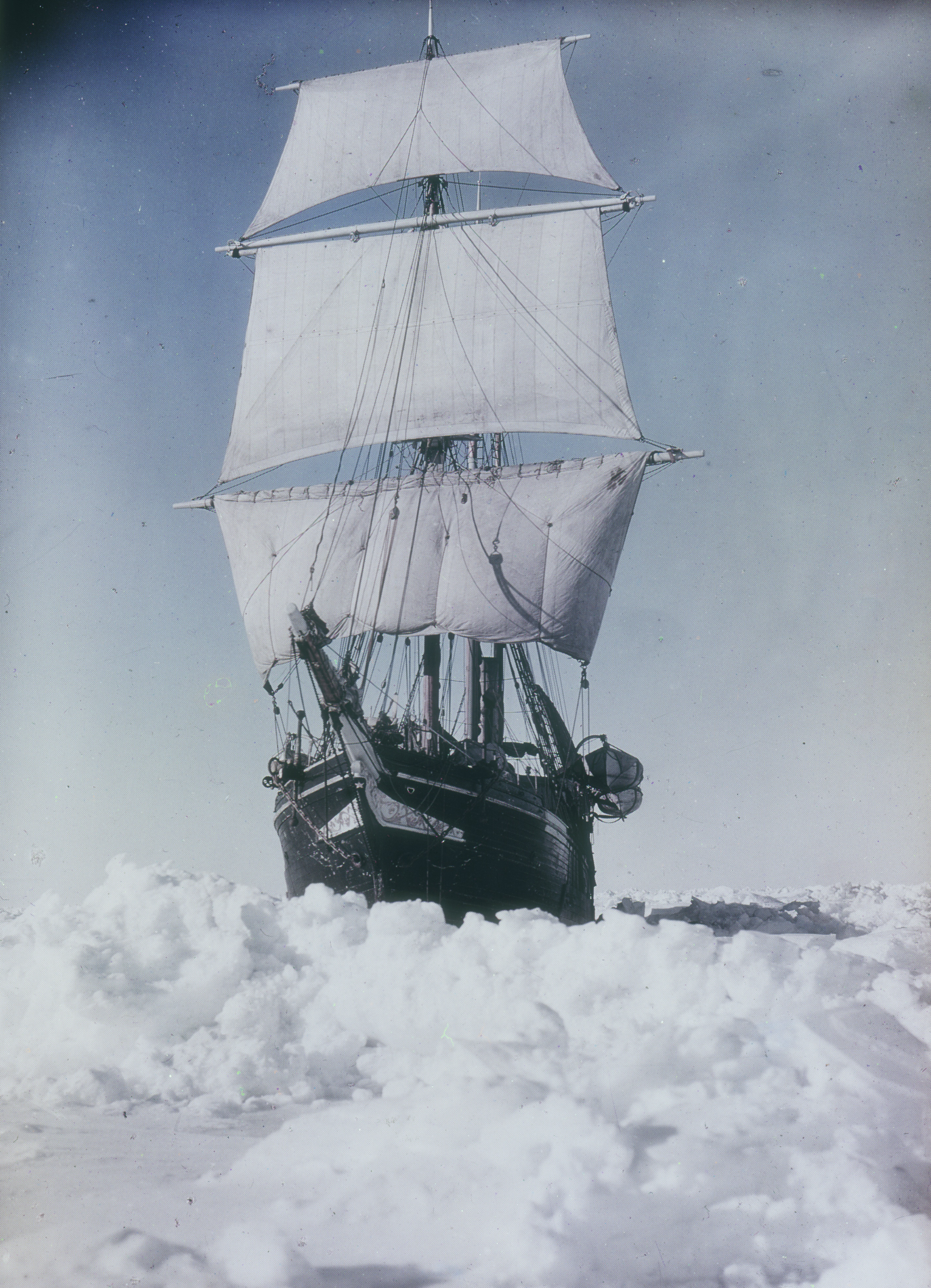 Endurance under full sail by Frank Hurle, paget plate, 1914-1915 State Library New South Wales a090012h